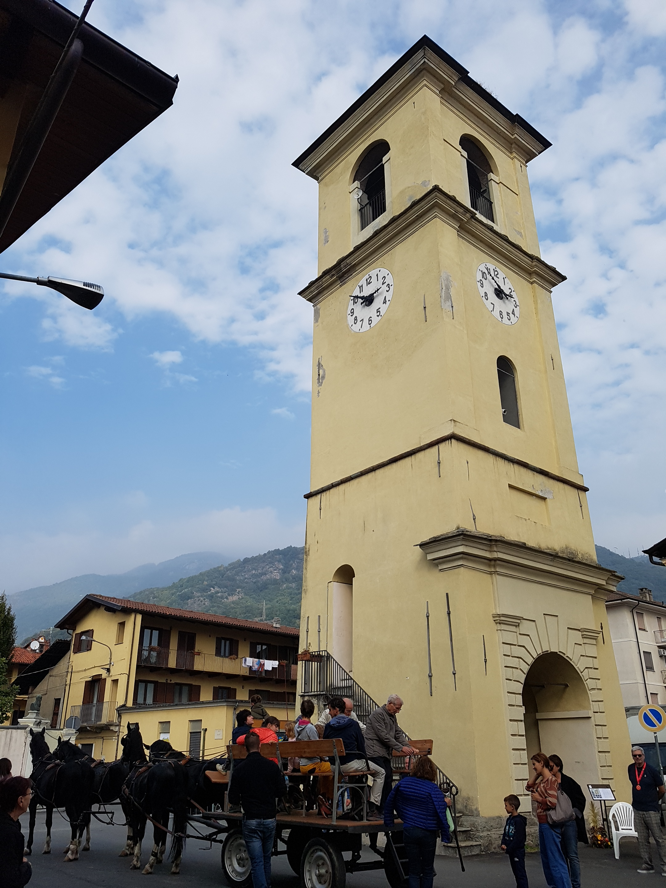 Tower Gate, XIII-XVIII century, Borgofranco d'Ivrea, Northern Italy